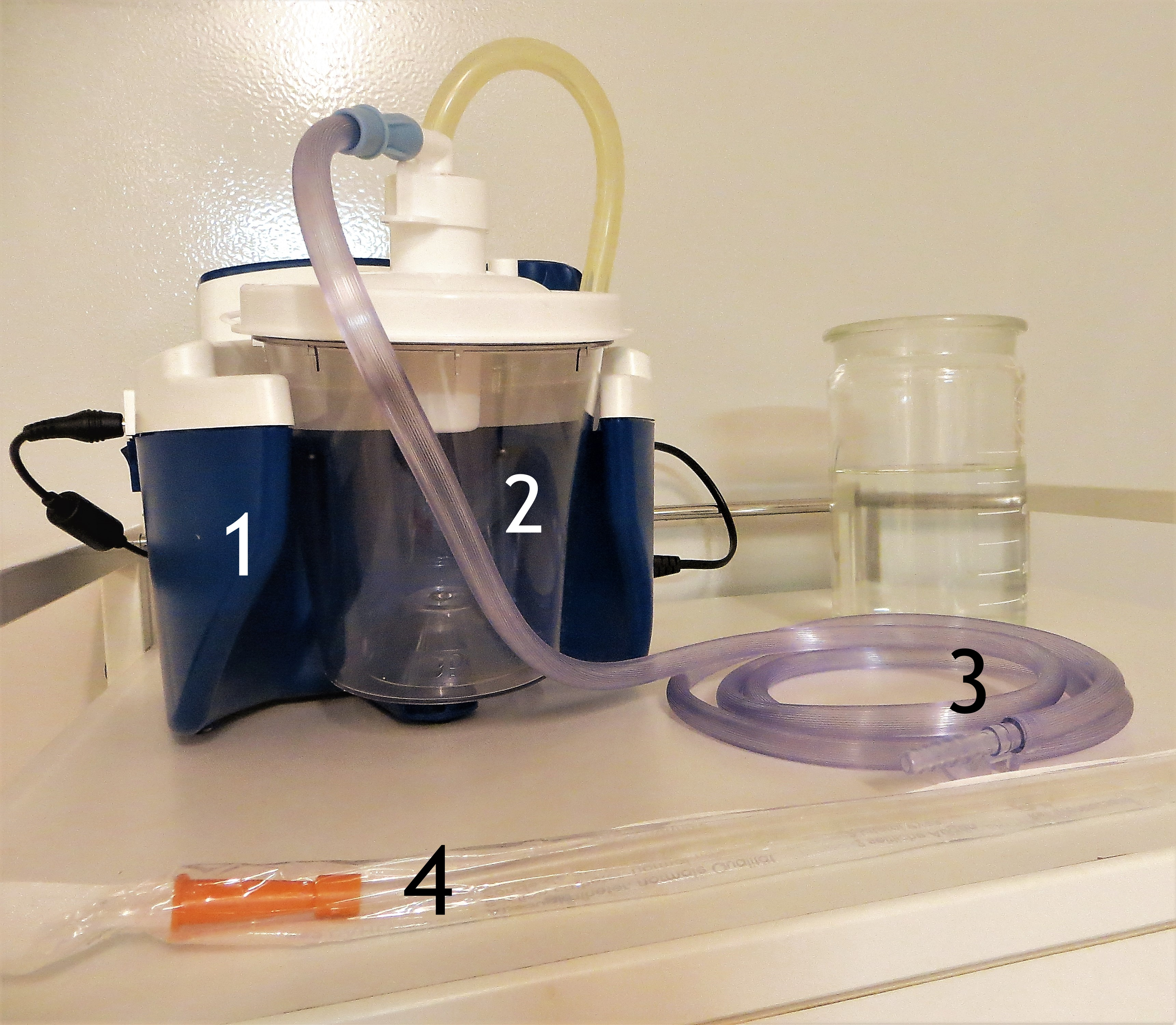 Aspirator for medical suction